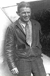 Douglas Groce Corrigan (Wrong Way Corrigan) beside his jerry-built aircraft